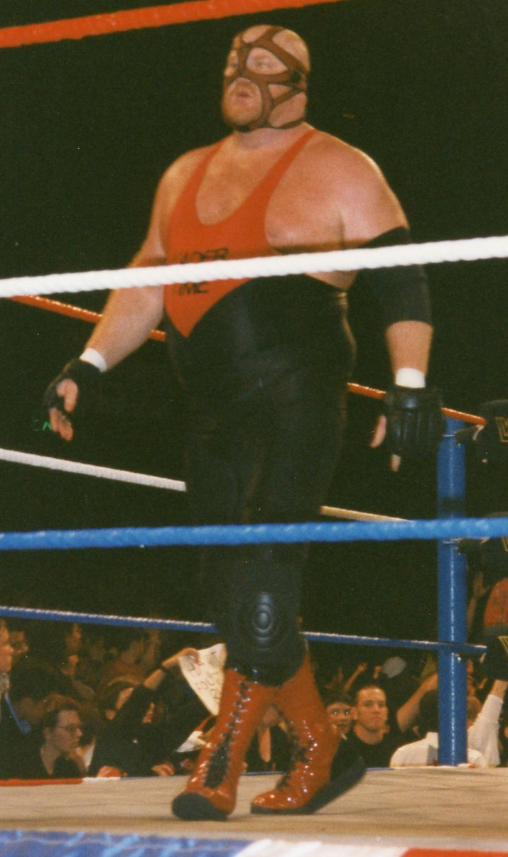 Vader in-ring during the WWF "One Night Only" pay-per-view event in Birmingham, England. Taken September 20, 1997.